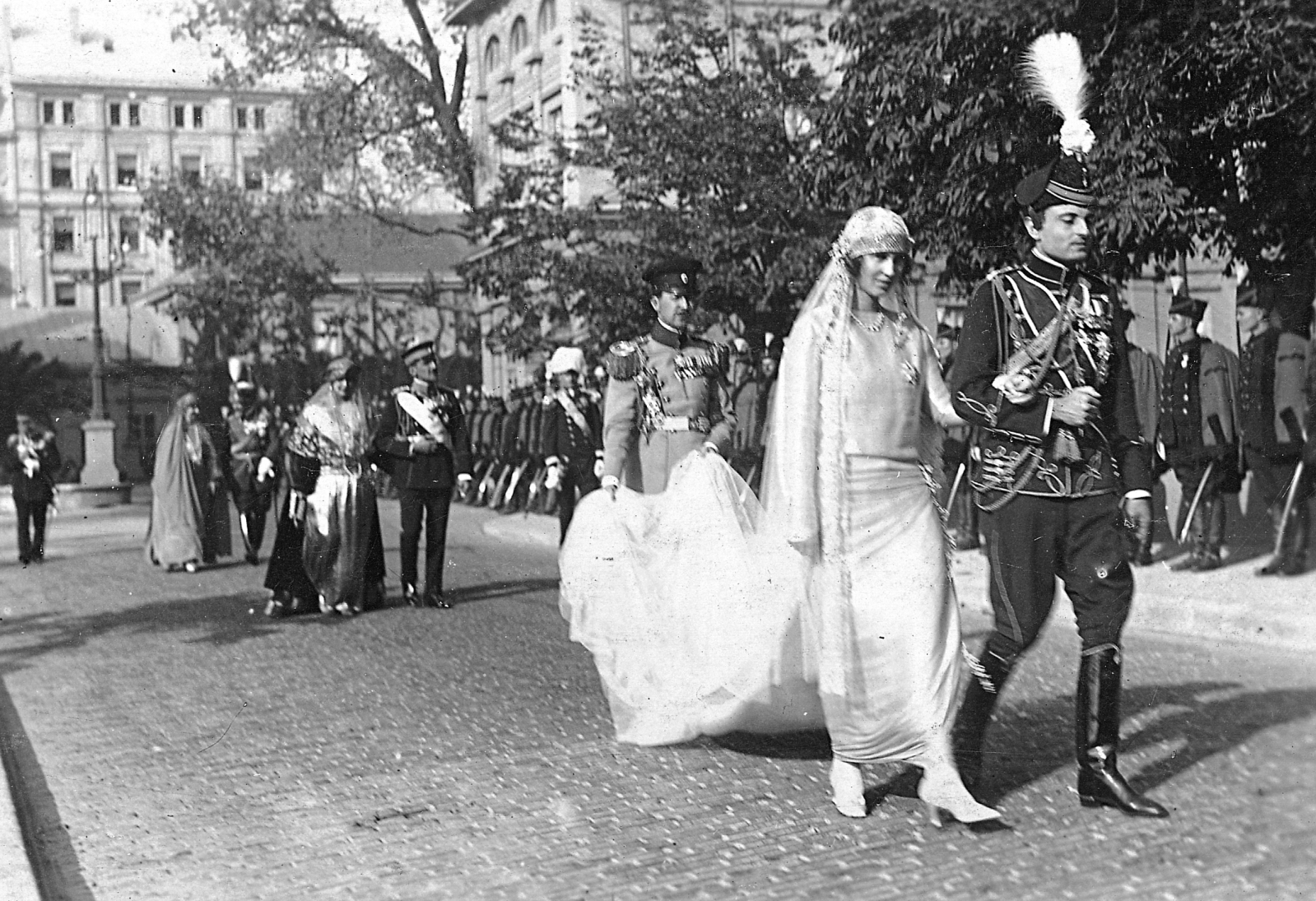 The wedding of Prince Pavle and Princess Olga